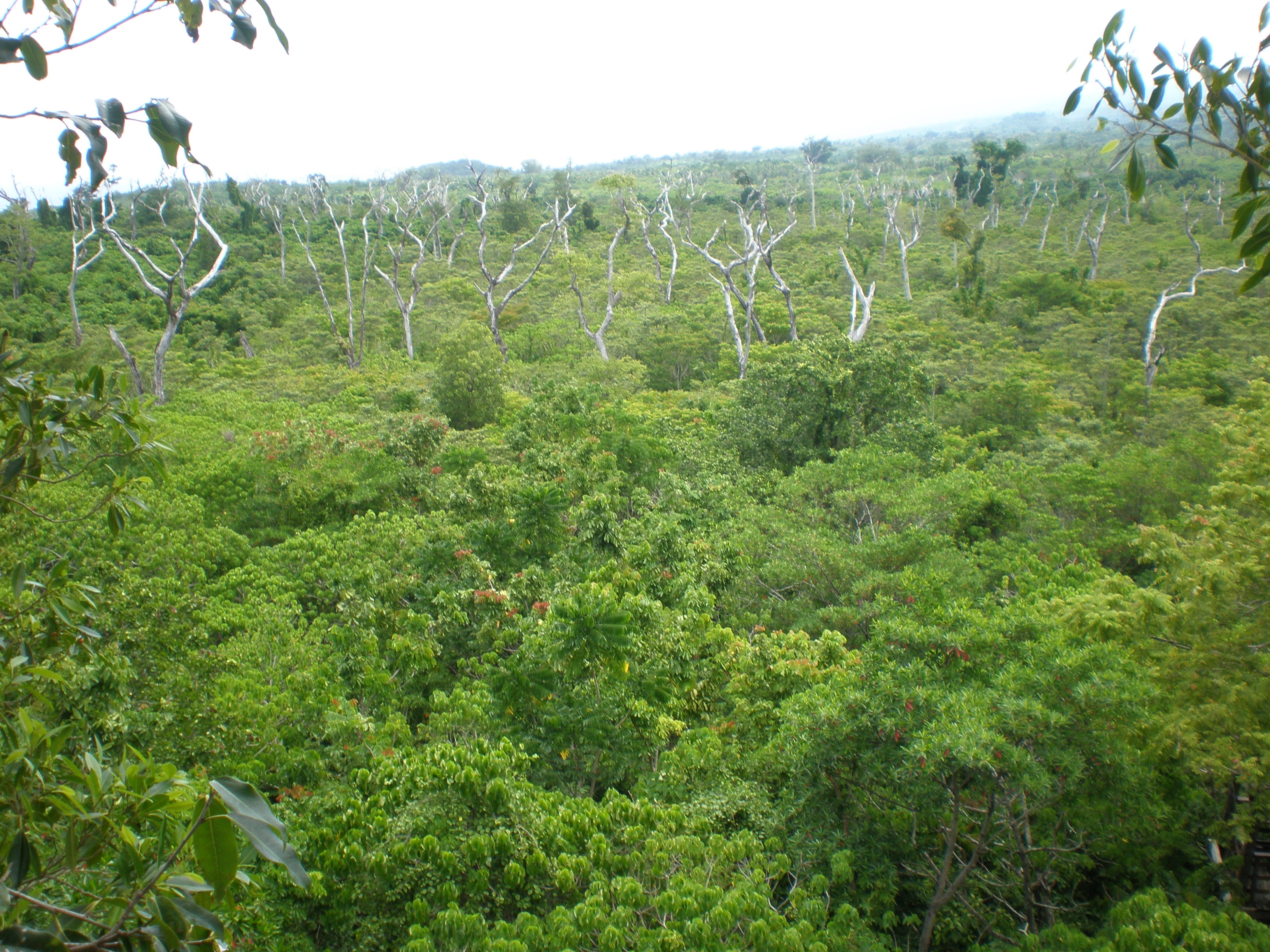 This is the view looking over the Falealupo rainforest standing near the top of a banyan ('Aoa' in Samoan language) tree. Steps and wooden platforms around the tree takes you up to the top for the view.